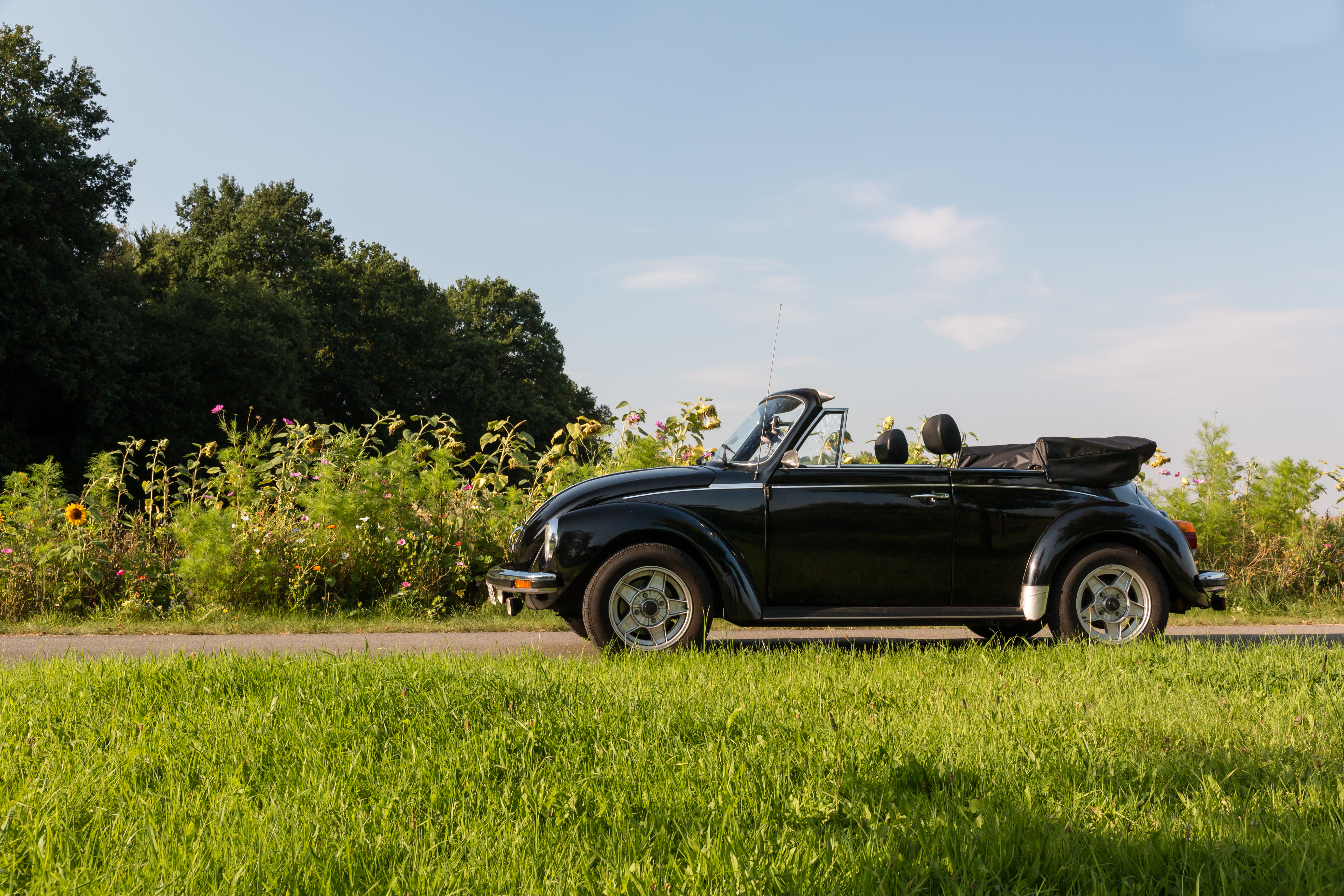 Volkswagen Beetle 1303 in the Dernekamp hamlet, Kirchspiel, Dülmen, North Rhine-Westphalia, Germany